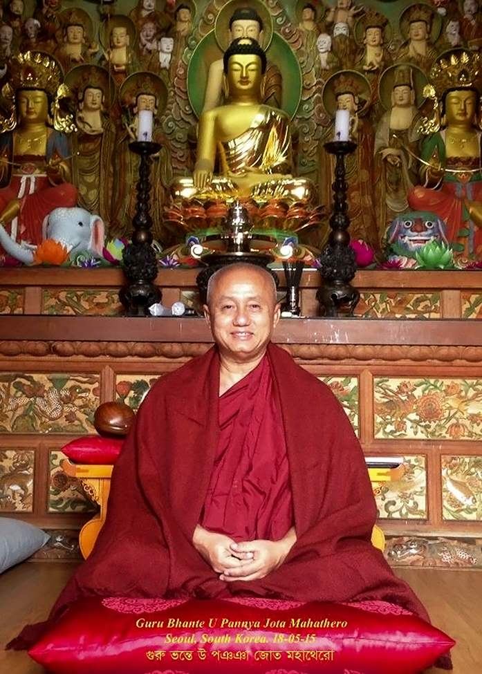 Ven. U Pannya Jota Mahathera at Seoul, South Korea